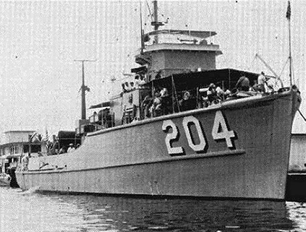 USS Thrush (MSC-204) moored at Coco Solo, Canal Zone